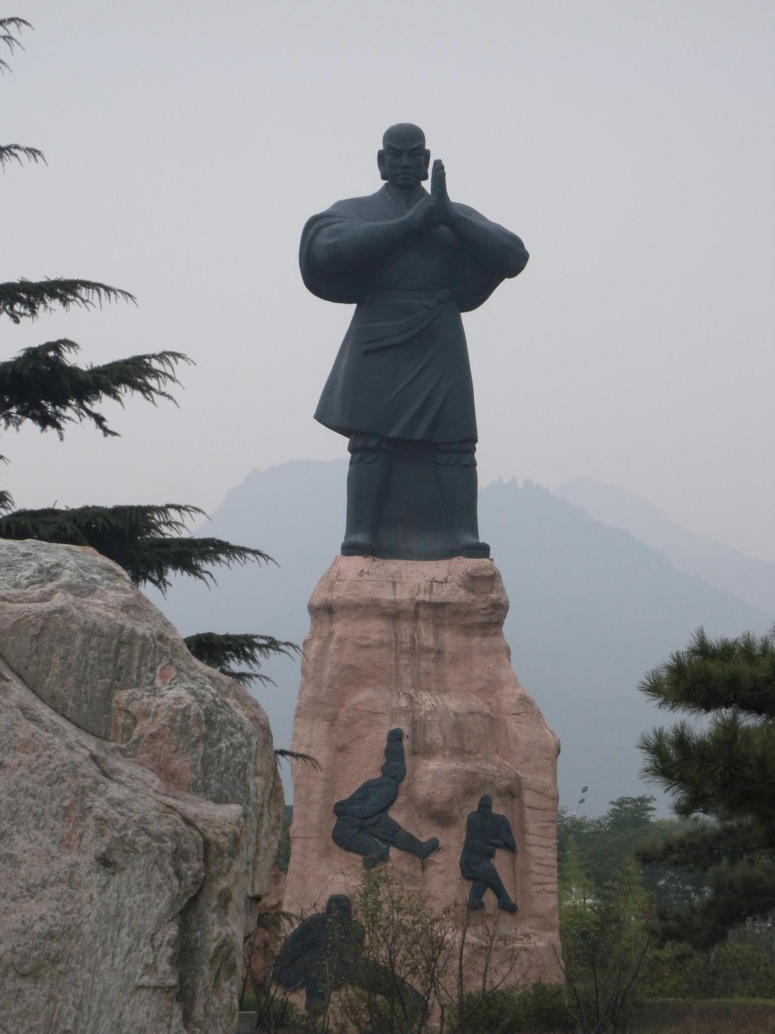 Shaolin Monastery entrance statue Any use should credit Ryan McFarland with a link